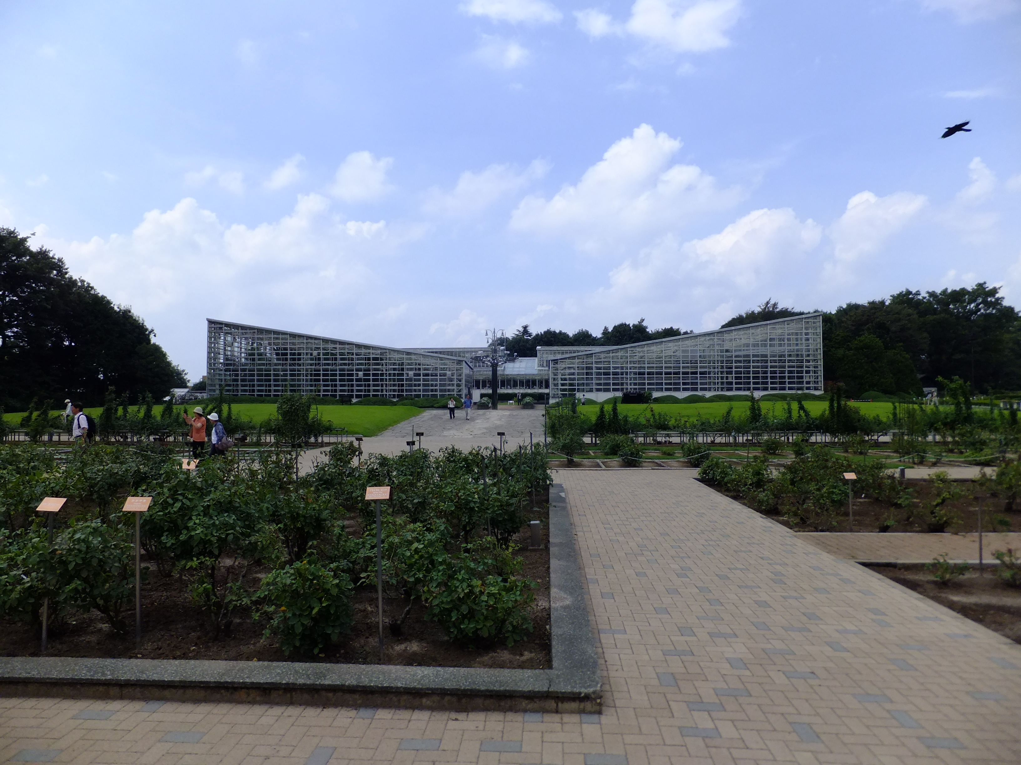 Greenhouse of Jindai Botanical Garden; Chofu City, Tokyo.